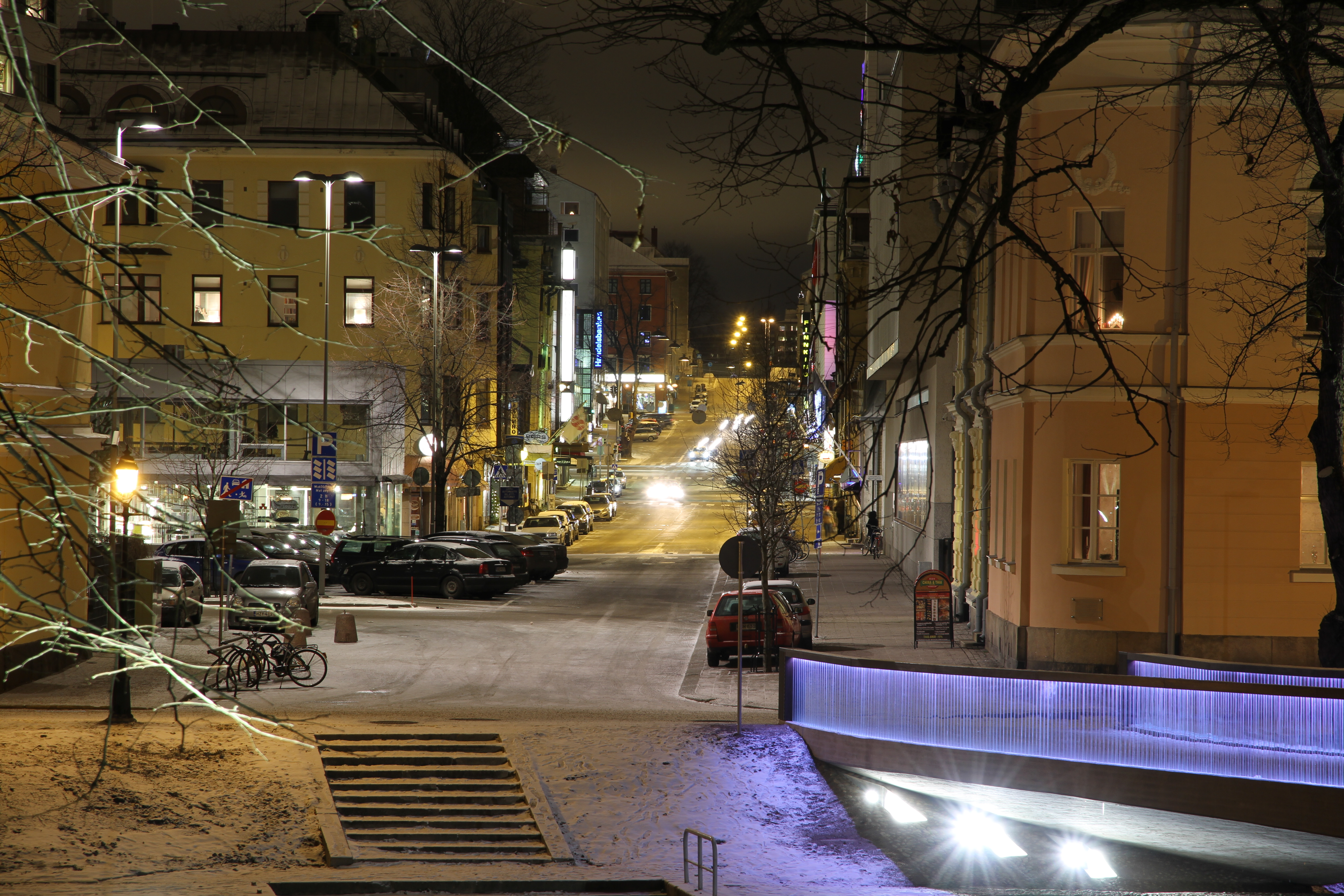 The new pedestrian bridge Kirjastosilta (Library Bridge) over the Aura River, Turku Finland.